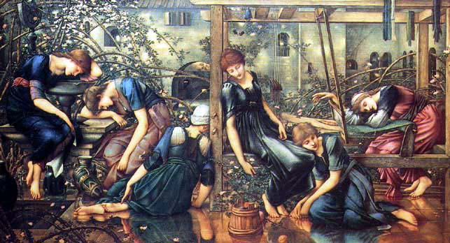 "The Garden Court" from the "Legend of Briar Rose" by Sir Edward Burne-Jones, located at Buscot Park, Oxfordshire.